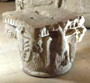 A capital from the Crnojević Monastery Cetinje